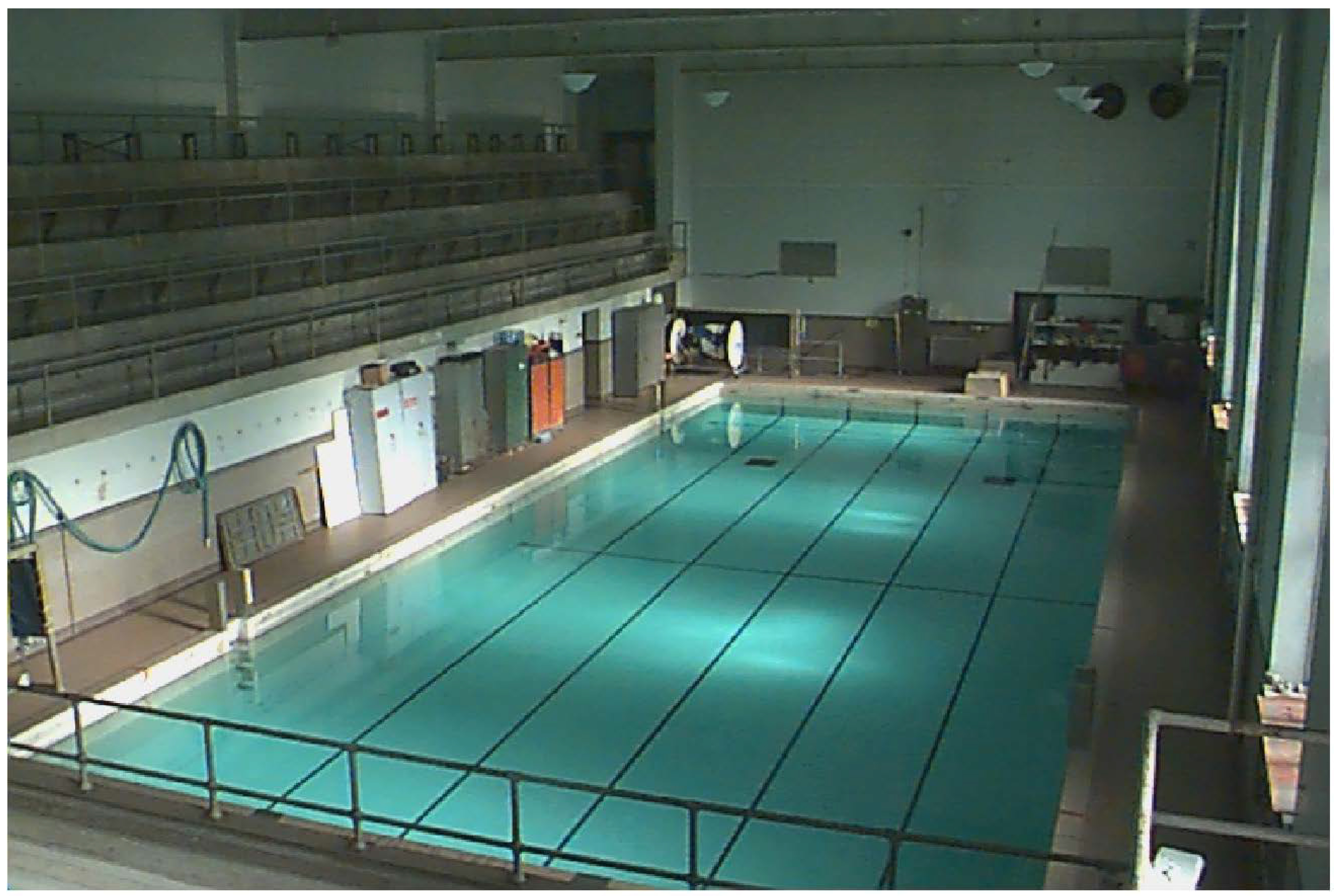 Huff Hall Swimming Pool, view from the elevated bleachers. Photo circa 2001.